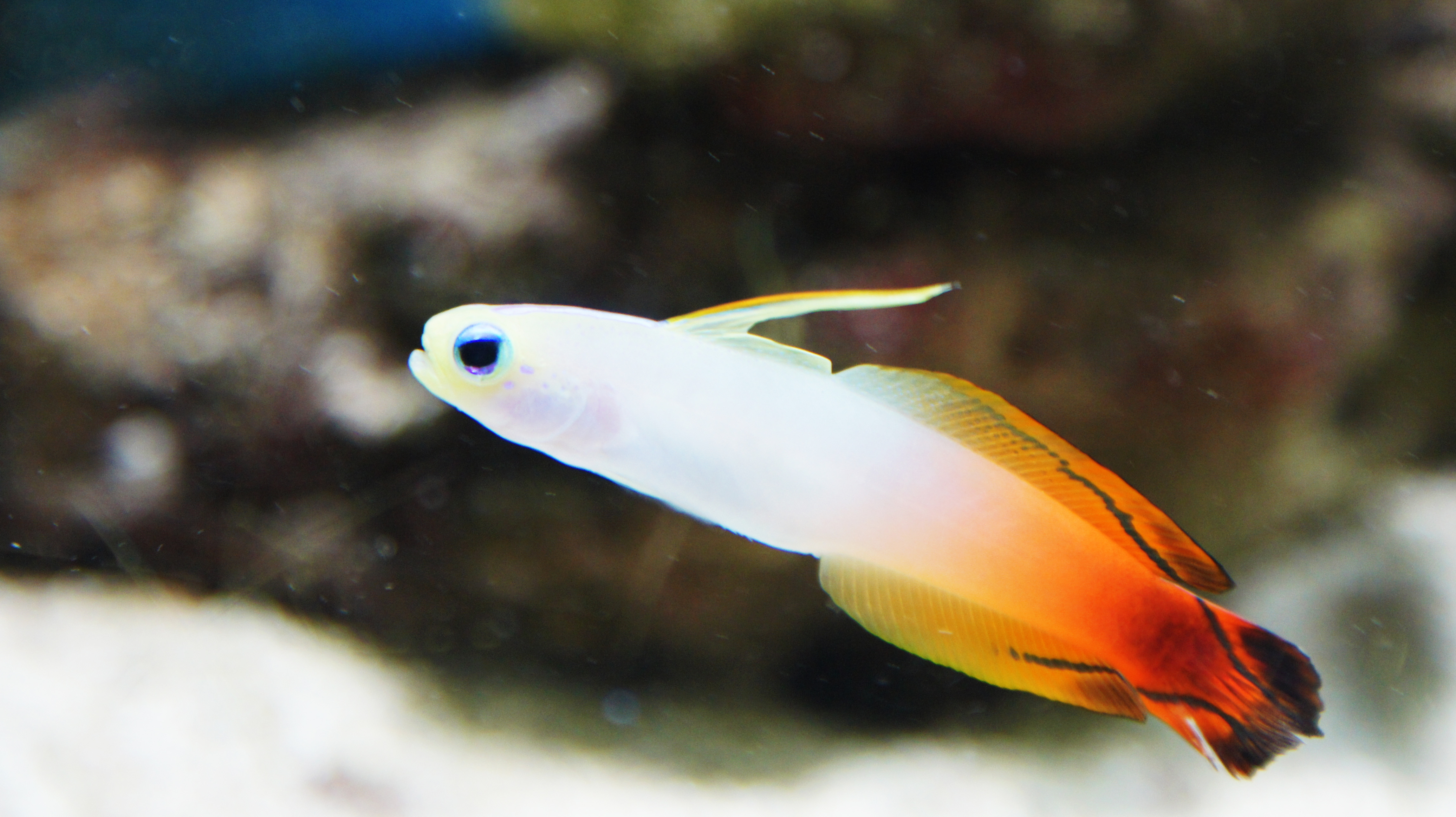 Orange-dashed goby in Birdworld in captivity (Nemateleotris magnifica)